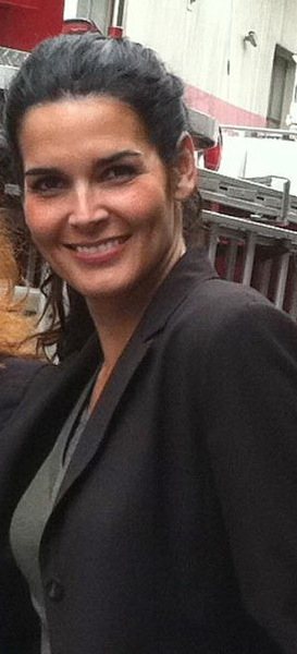 Sasha Alexander, Bruce McGill, Janet Tamaro and Angie Harmon